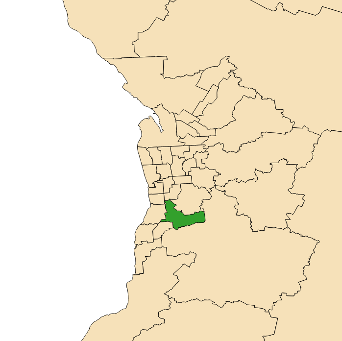 Electoral district 2018 boundaries shown in green